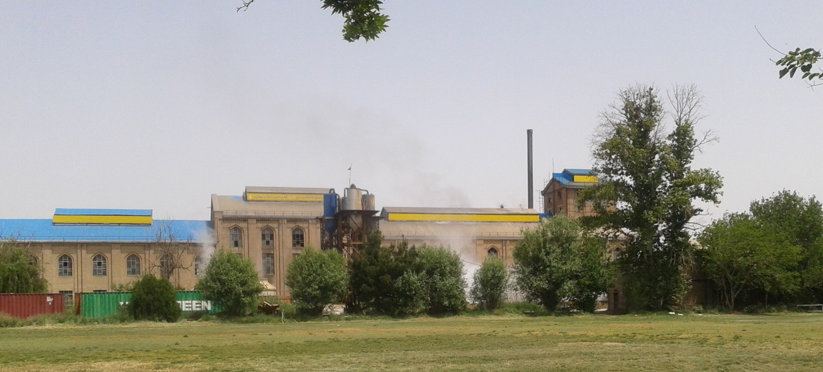 Sugar Refinery Factory of Varamin was built in 1934/1935 by Nikolai Markov.